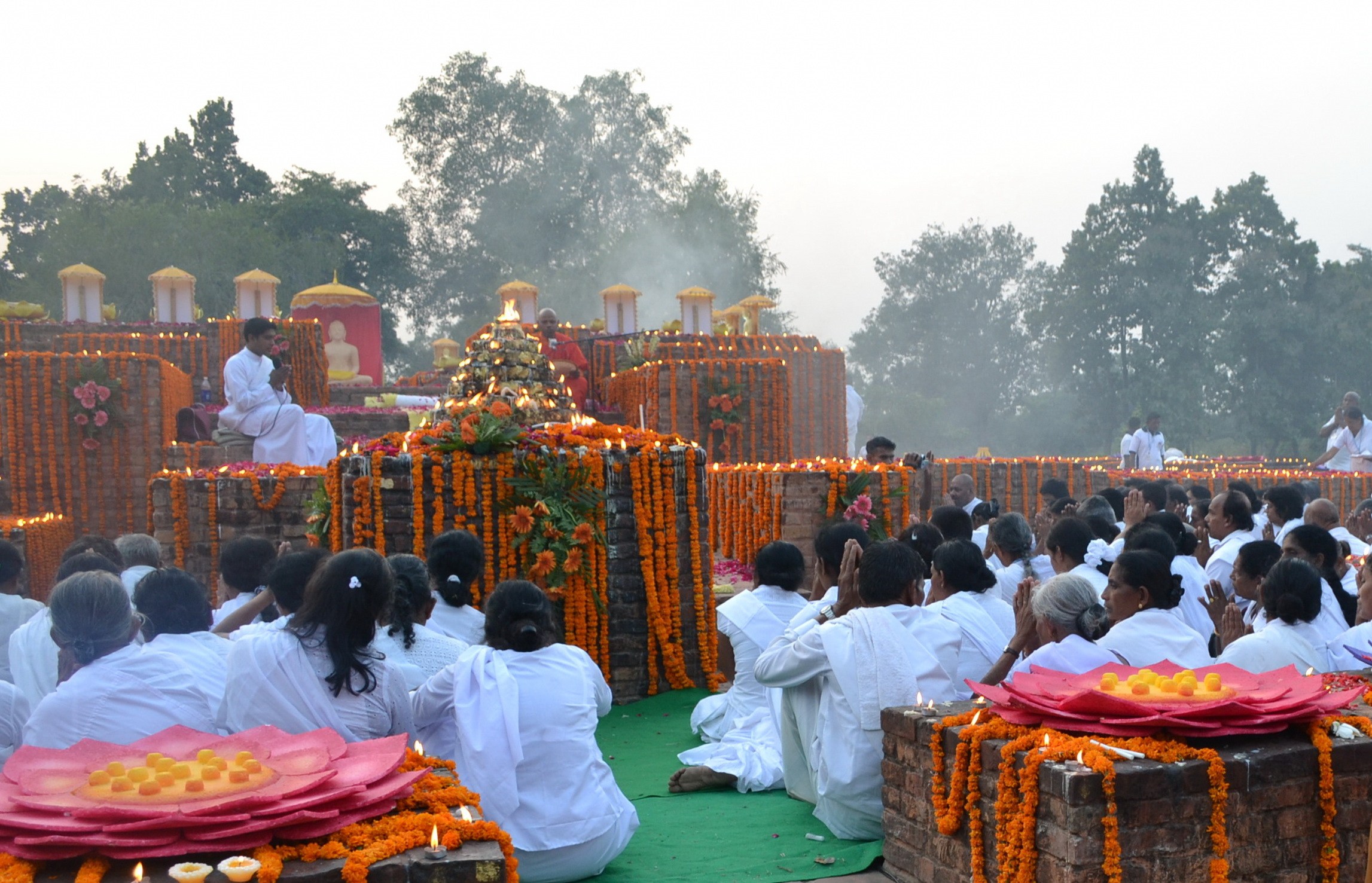 Mulagandhakuti (2600 Sambuddhatva jayanthi) in Jetavana Mahavihara of AnathapintikasetteLocation: Uttar Pradesh, India